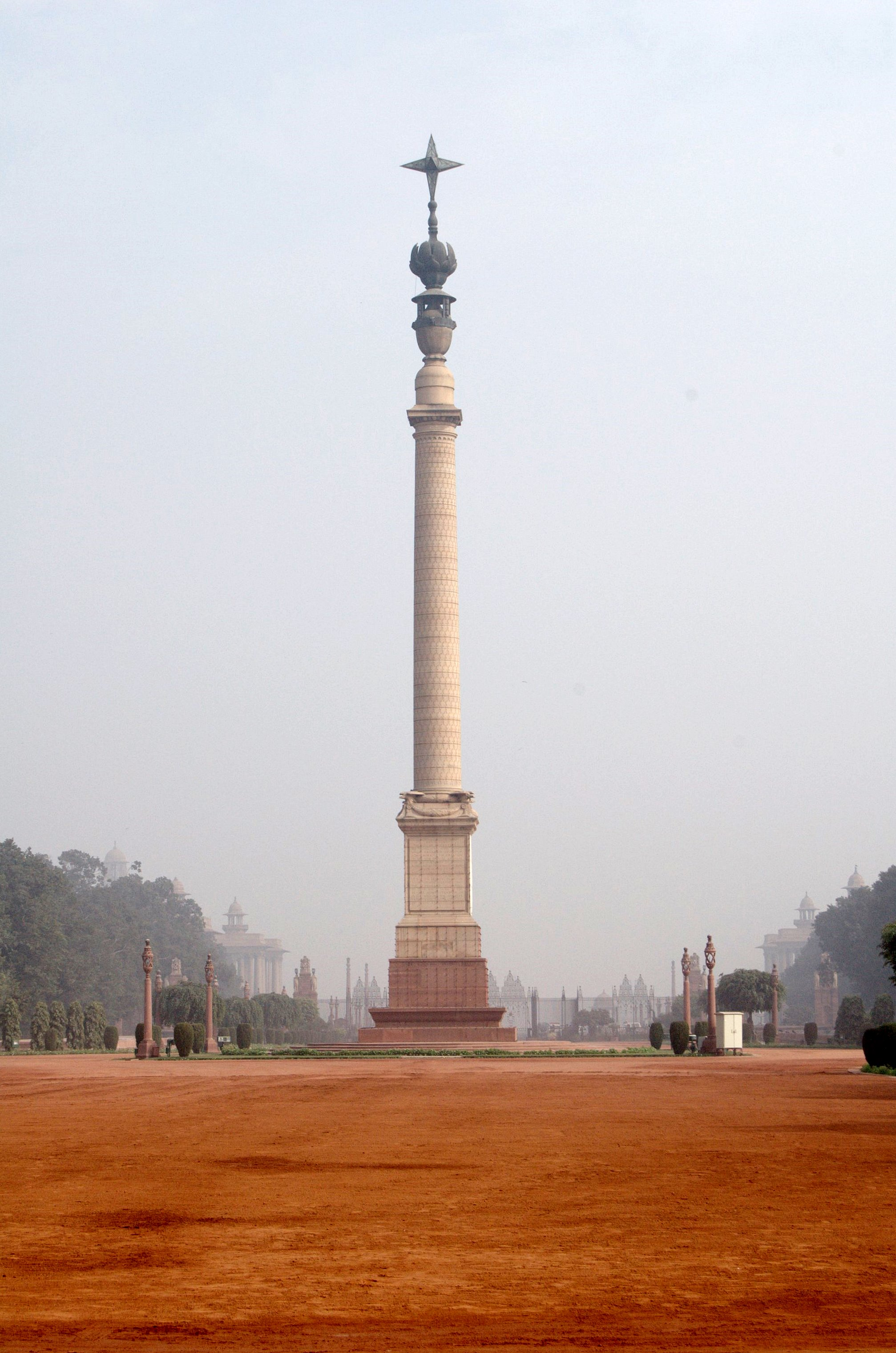 Jaipur Column, Rashtrapati Bhavan, New Delhi, with bas-relief made by British sculptor, Charles Sargeant Jagger, looking east from Rashtrapati Bhavan, Secretariat Building visible to the left in the background.